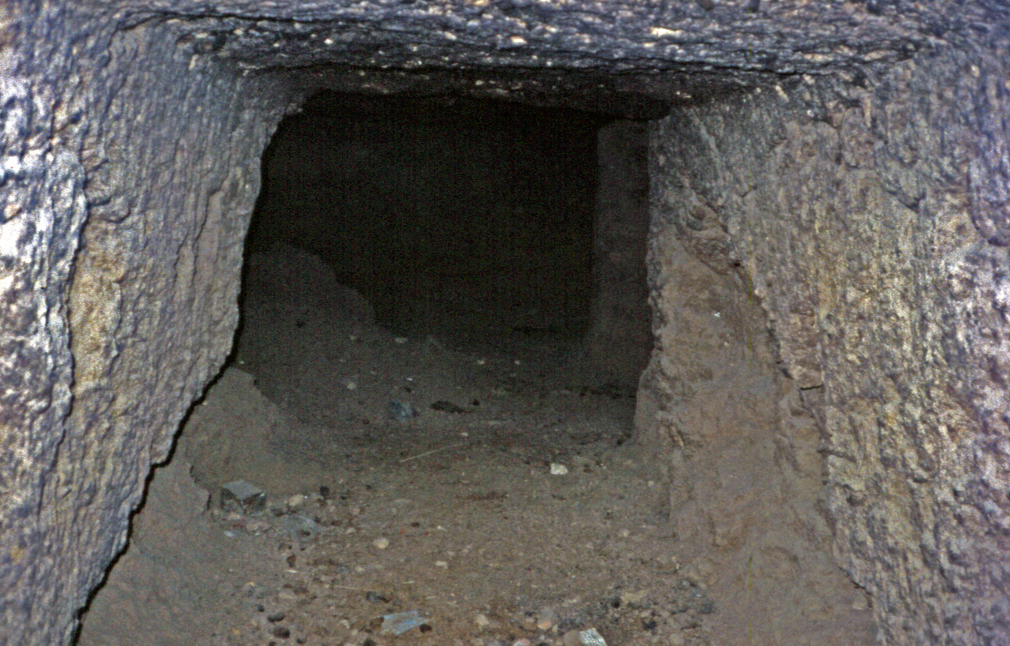 Entrance of the burial chamber of Intef I in his saff tomb near Thebes, known as Saff el-Dawaba.